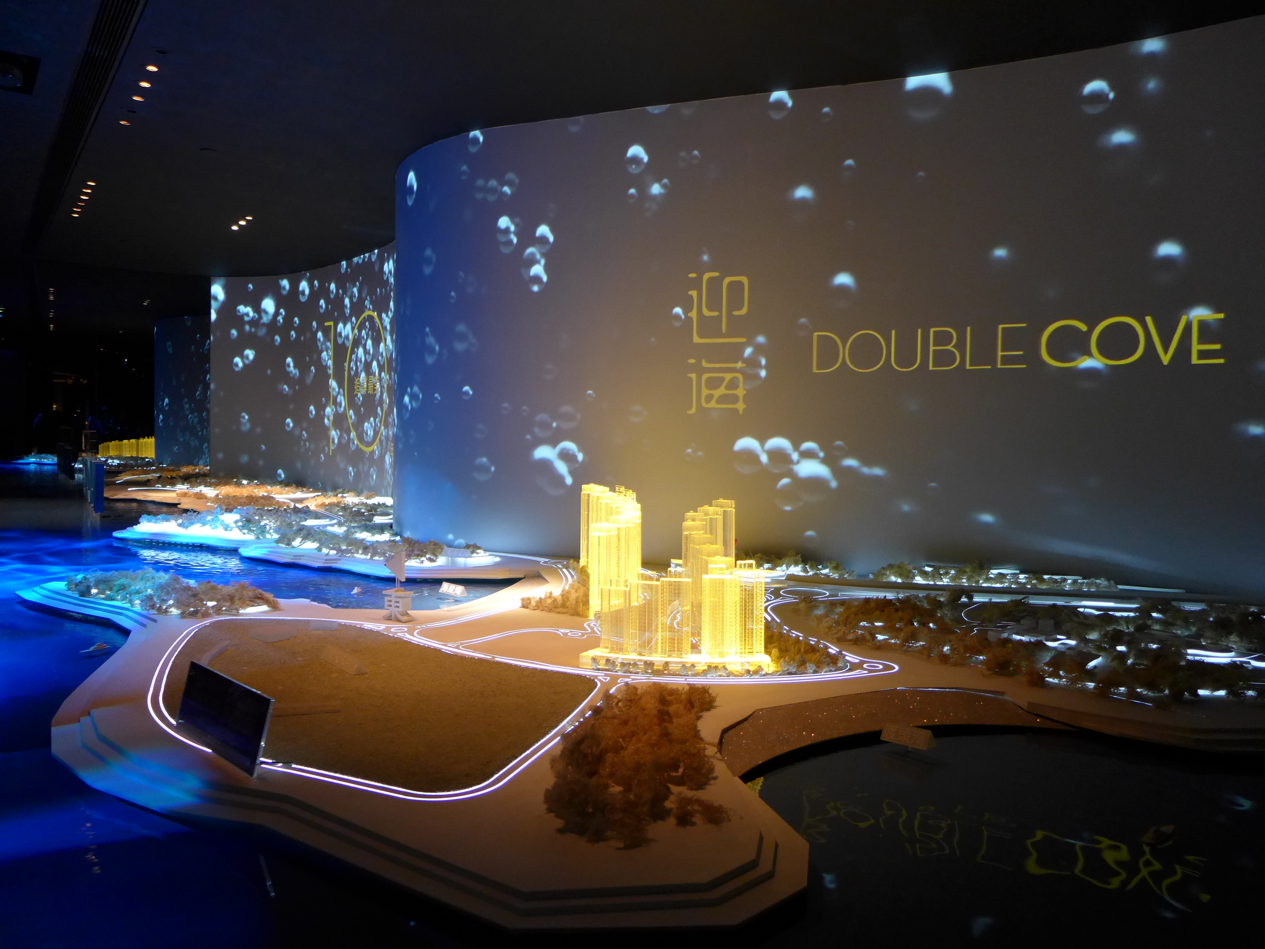 Double Cove Phase 1 showflat intro area